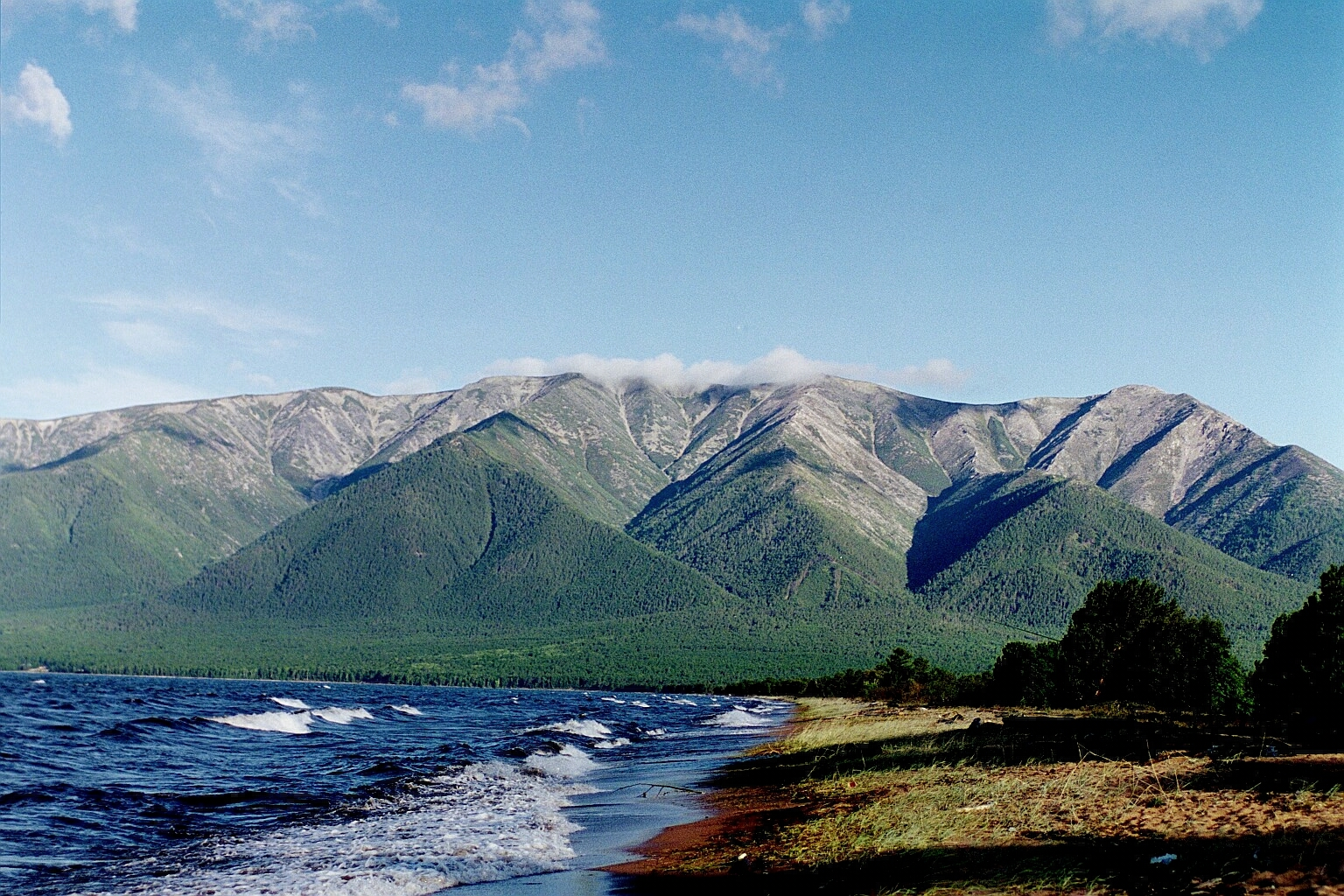 Eastern shore of Lake Baikal, Svyatoy Nos Island (Holy Nose, top elevation 1877 m)